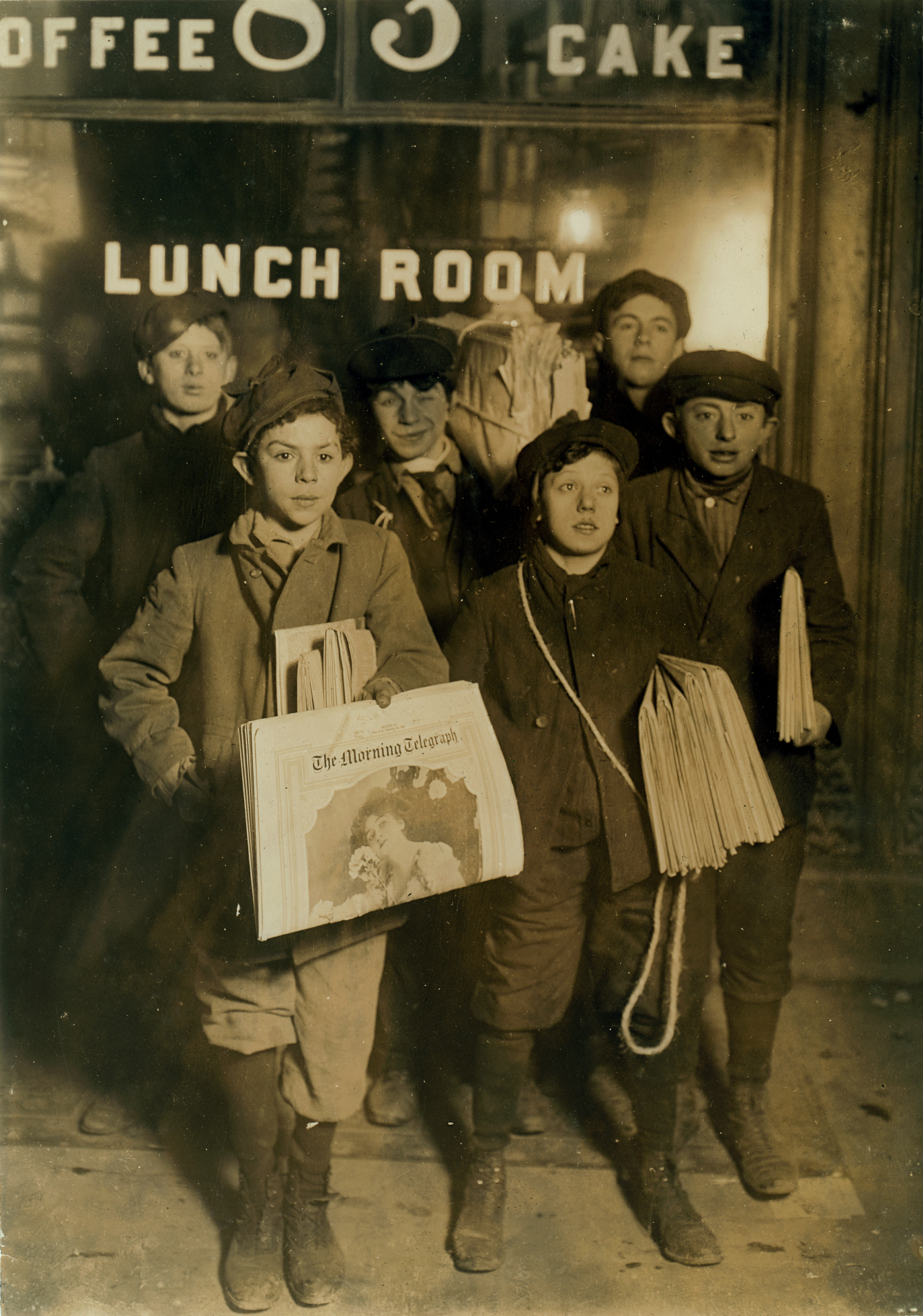 3 A.M. Sunday, February 23rd, 1908. Newsboys selling on Brooklyn Bridge. Harry Ahrenpreiss, 30 Willet Street. (Said was 13 years old). Abe Gramus. 37 Division Street. Witness Fred McMurray. Location: New York, New York (State) / Photo by Lewis W. Hine.